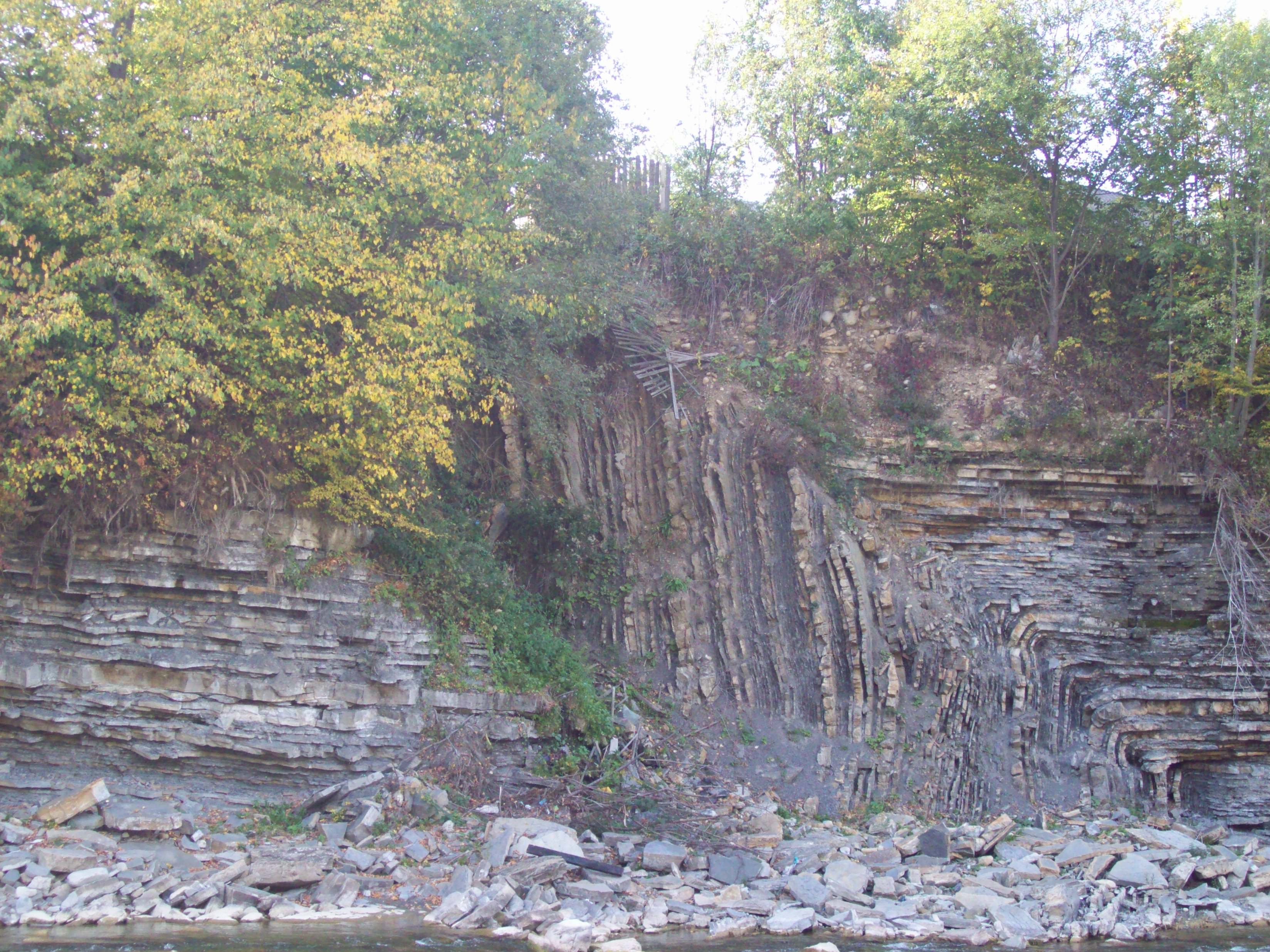 Fold in Ukrainian Carpathian. village Dora (near Jaremche, Ivano-Frankivsk region West Ukraine